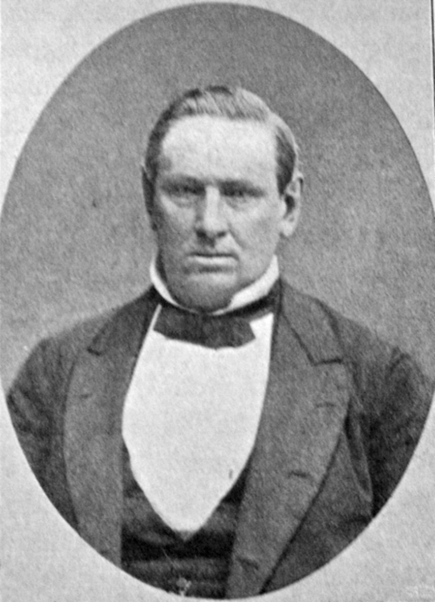 Picture of Axel Bergström, Swedish politician